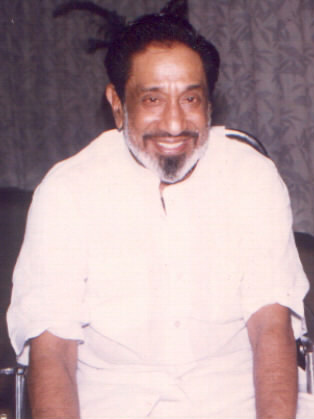 Mohan V Raman with Sivaji Ganesan